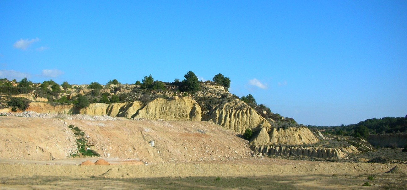 Serra de les Veles, a small mountain range close to Tortosa, former quarry.